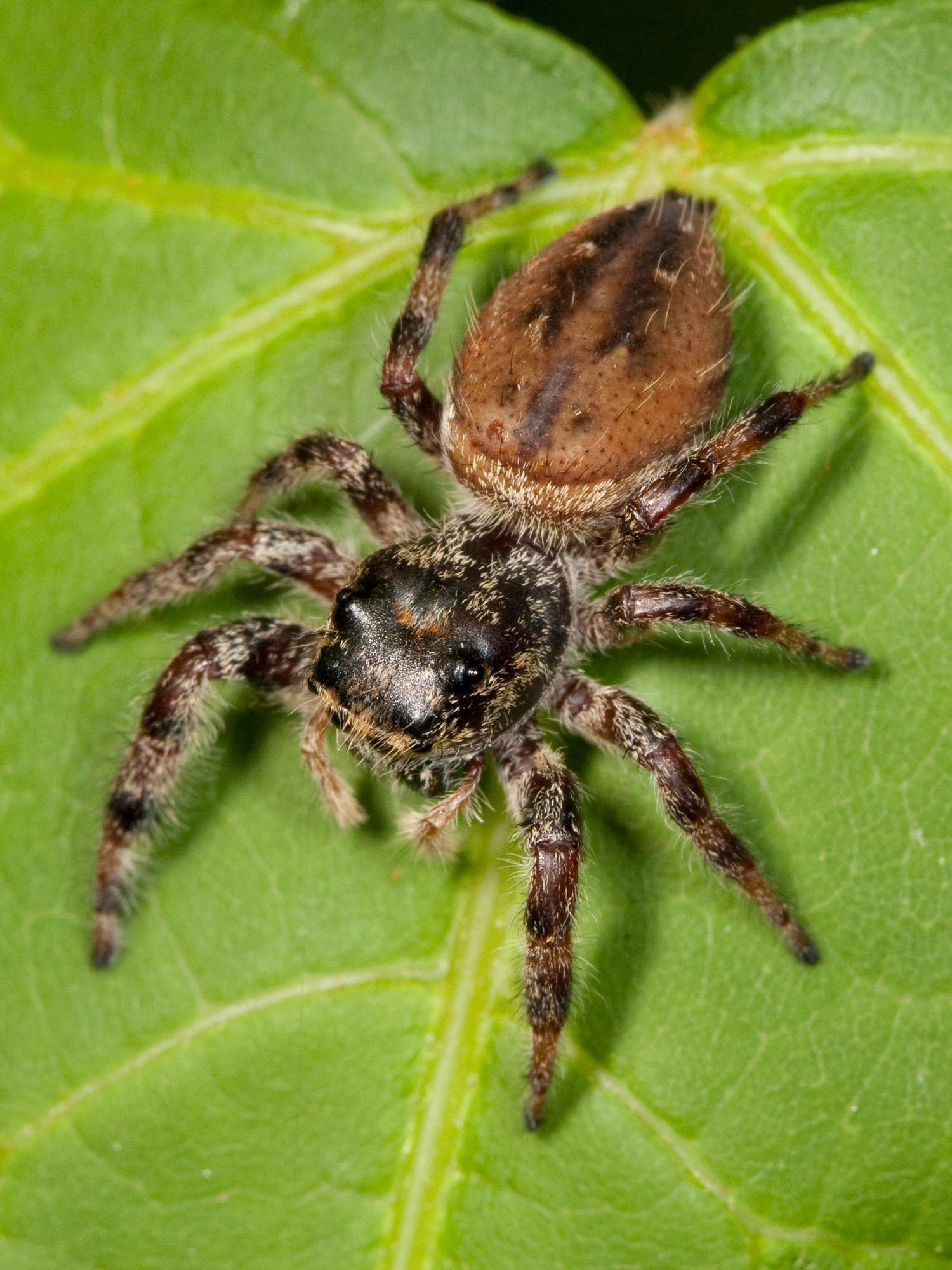 Adult female Phidippus clarus jumping spider found at Shelby Park in Nashville, Tennessee